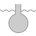 The image shows an underwater habitat type 2